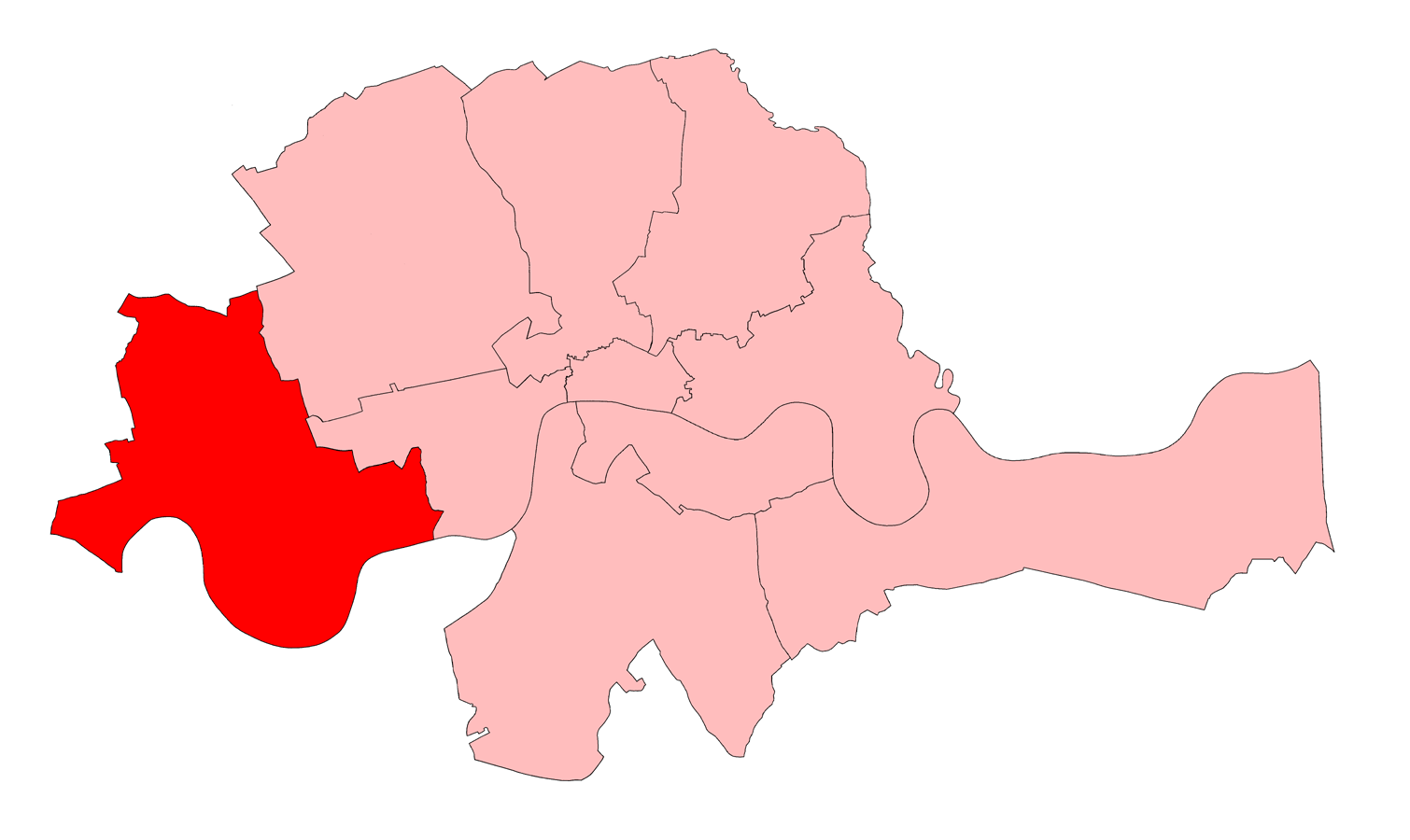 A map of Chelsea constituency within the Metropolitan Board of Works area, as it existed from 1868 to 1885.